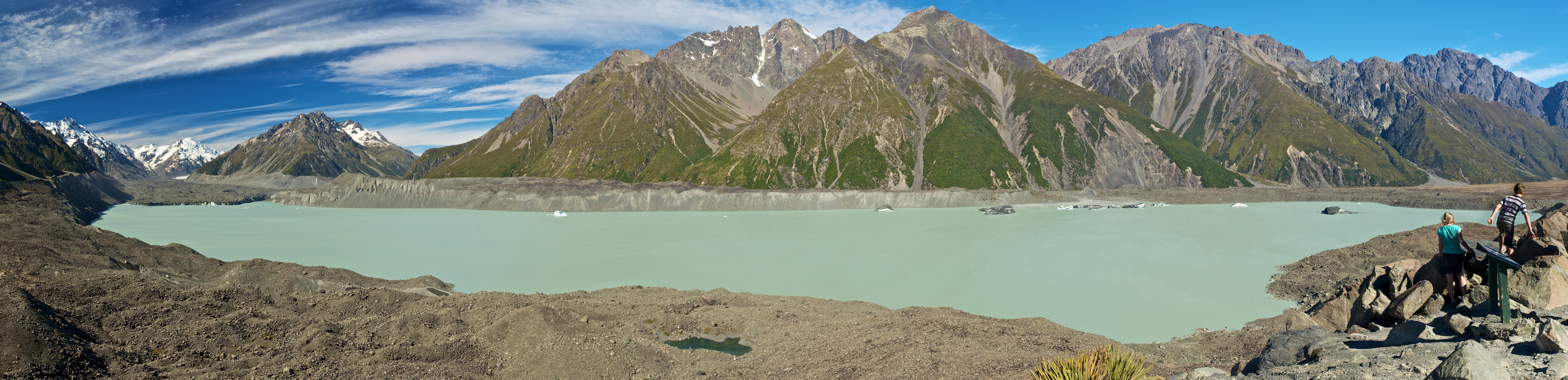 Tasman Glacier and Tasman Lake, New Zealand